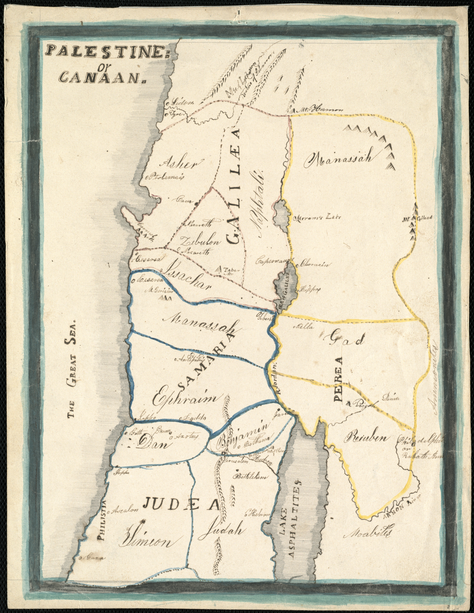 Zoom into this map at . Author: Nichols, Phoebe Date: 1853 Location: Israel, Jordan, Palestine Dimension: 30 x 22 cm Scale: Not drawn to scale Call Number: G7480 1853 .N53